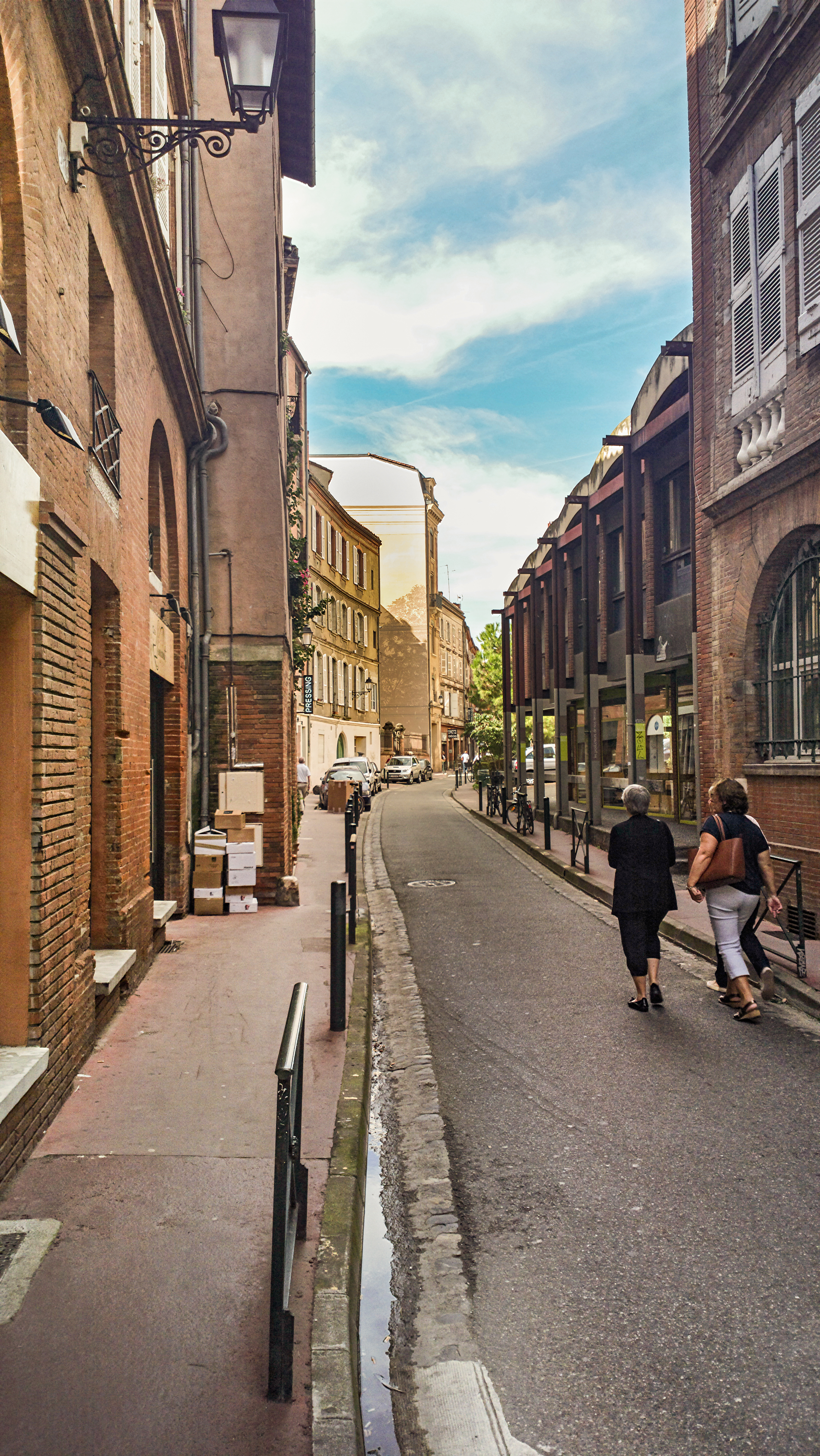 Rue d'Astorg, in Toulouse - View of the beginning of the street from Malaret Street towards the west.